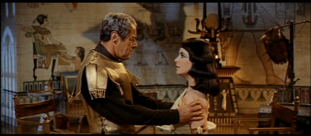 Screenshot of Rex Harrison and Elizabeth Taylor from the trailer for the film Cleopatra.